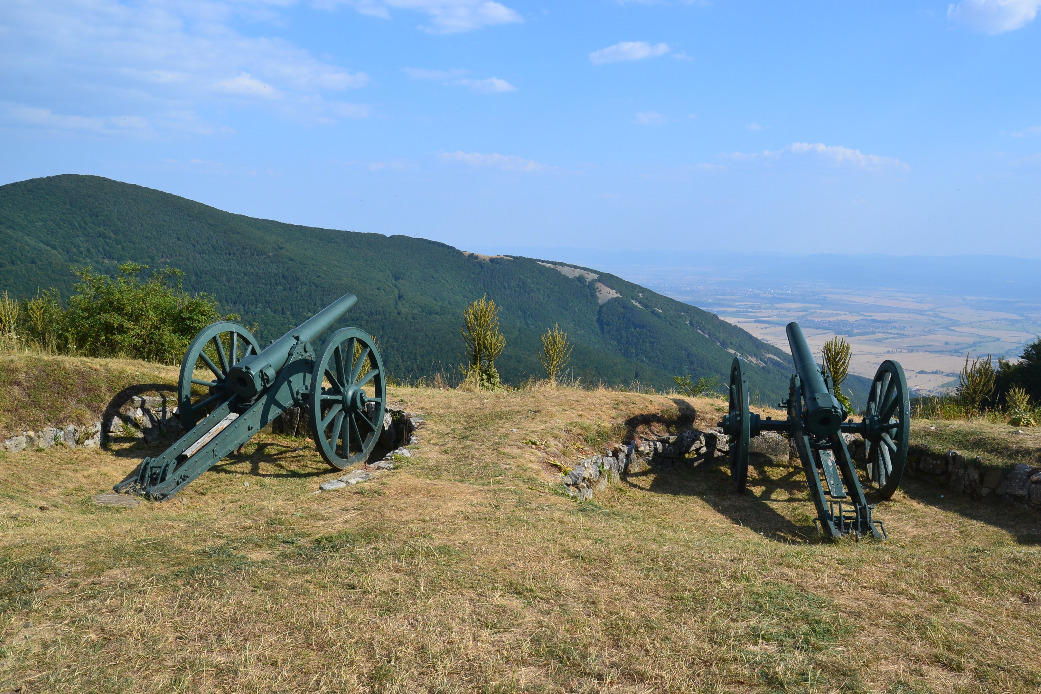 Shipka pass (Шипка), Bulgaria - guns